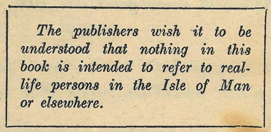 The disclaimer that appeared in the front of Hall Caine's 'The Woman of Knockaloe' (later re-published as 'Barbed Wire').